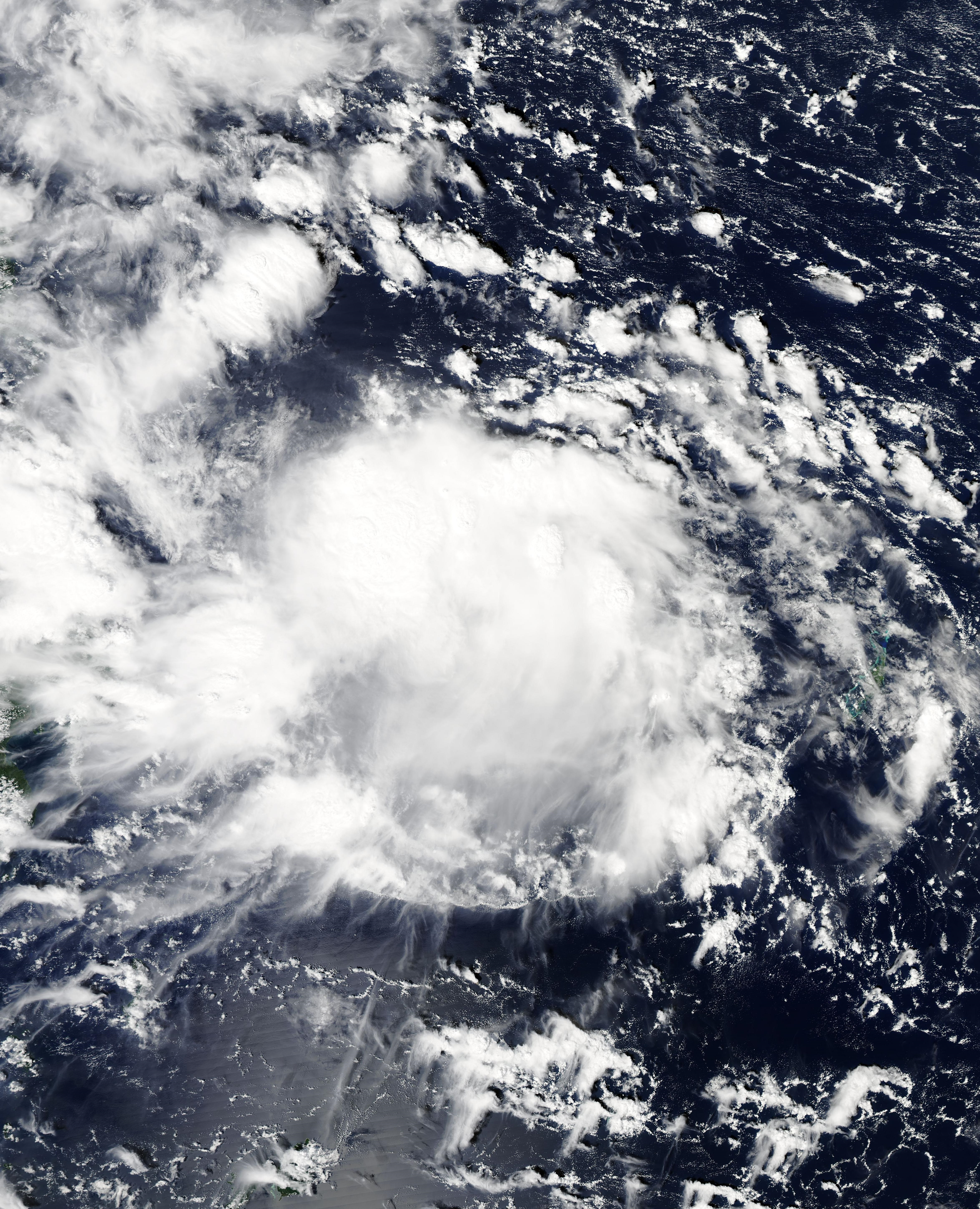 Tropical Depression Wilma on November 3, 2013